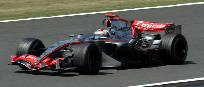 Kimi Räikkönen driving for McLaren at the 2007 French Grand Prix.